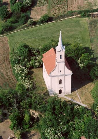 Kiszékely, Hungary, aerialphotography. Szent György vértanú római katolikus templom This is a photo of a monument in Hungary, Identifier: 8650